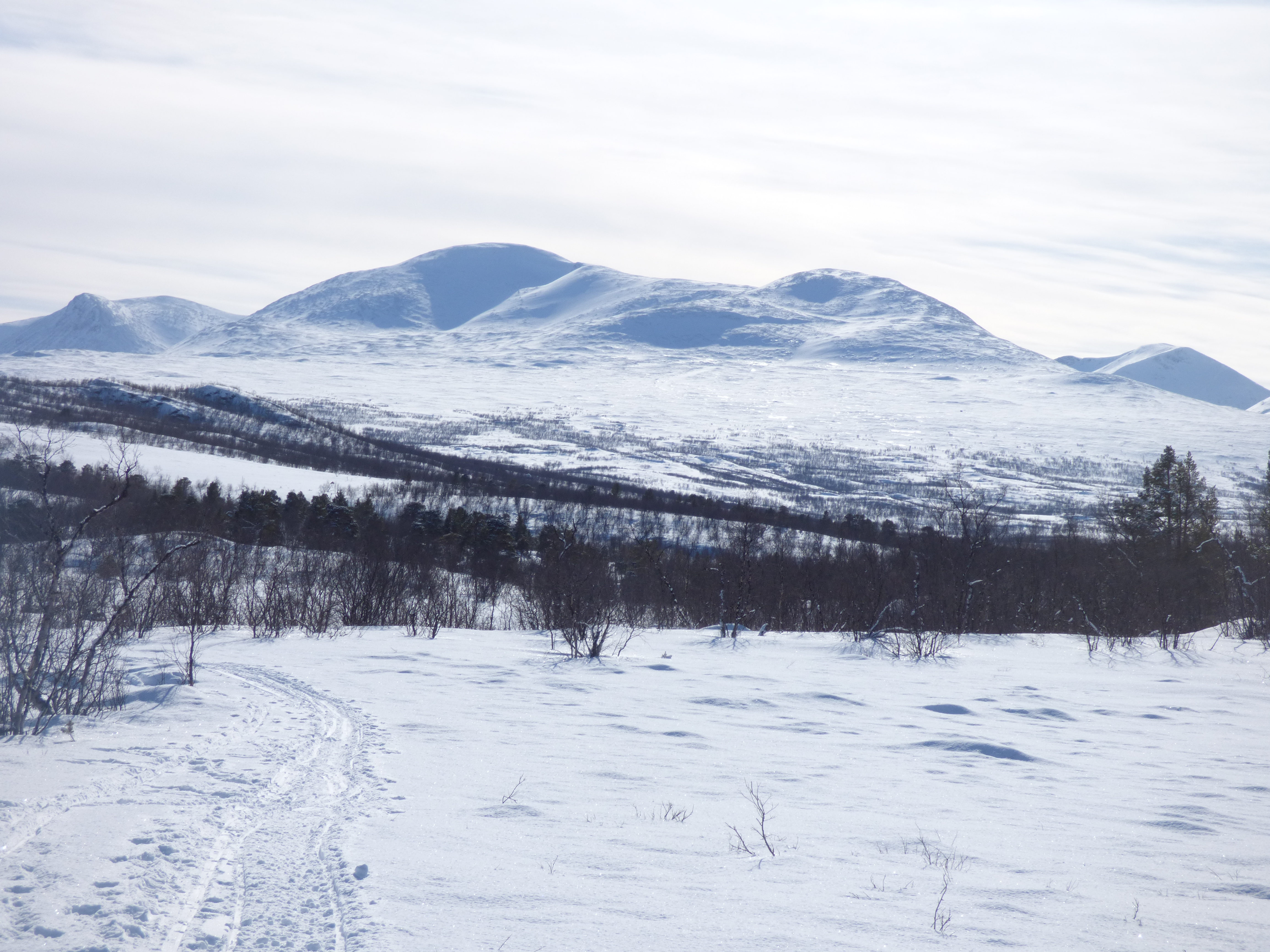 Taken while cross country skiing in Abisko National Park, April 1.